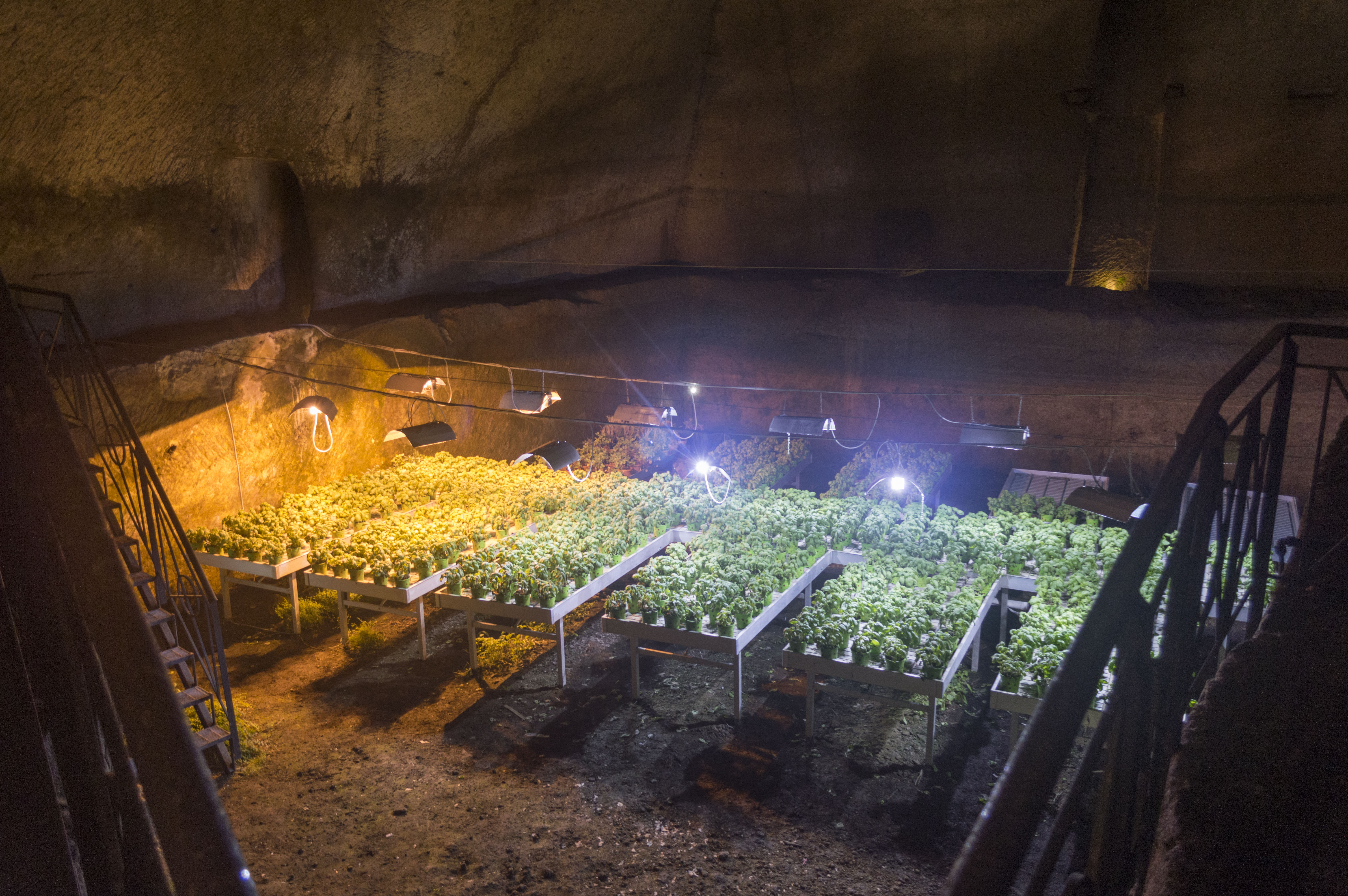 Underground of Naples. Plants growing.